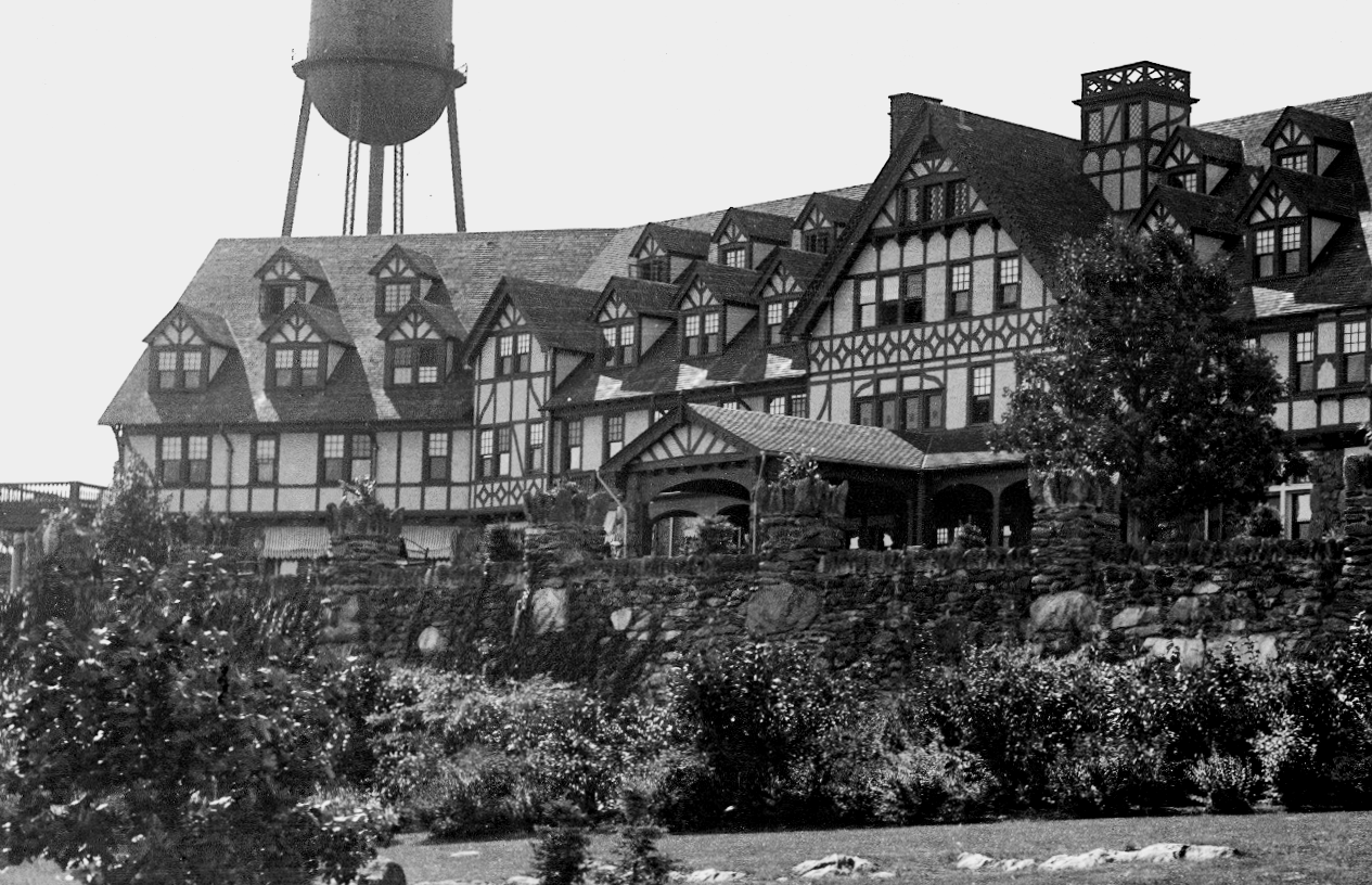 File:Briarcliff Lodge c. 1905 (2).png cropped. The Briarcliff Lodge c. 1905, by James A. Hart of Ossining, New York. Published in 1952 without a copyright notice, see File:Images from Our Village, Briarcliff Manor 11.JPG